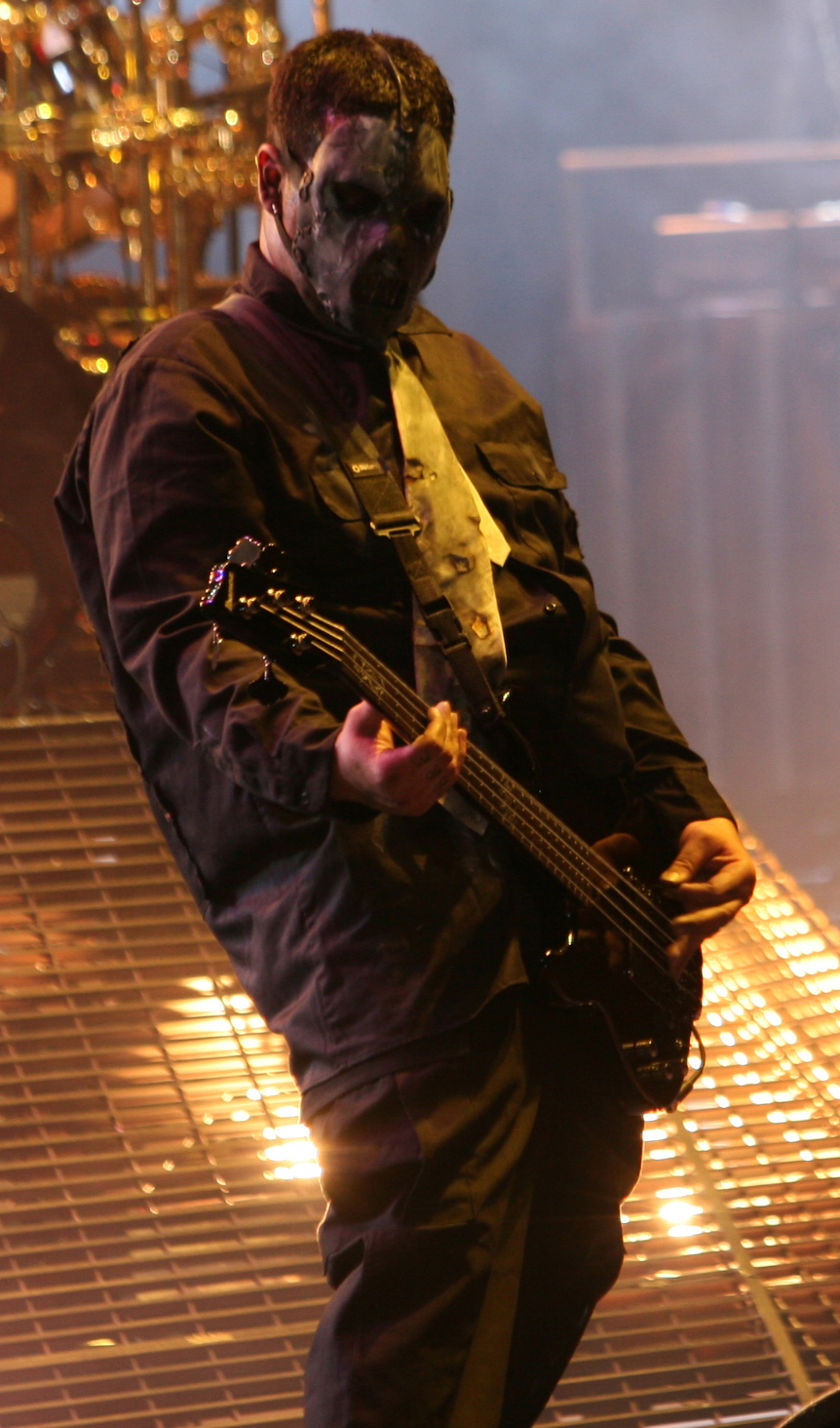 Bassist Paul Gray of Slipknot at the mayhem festival 2008.